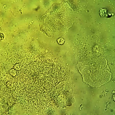 Vaginal wet mount with a NaCl preparation, showing a clue cell at bottom left, and two normal epithelial cells. Taken with light microscopy at 40x magnification.